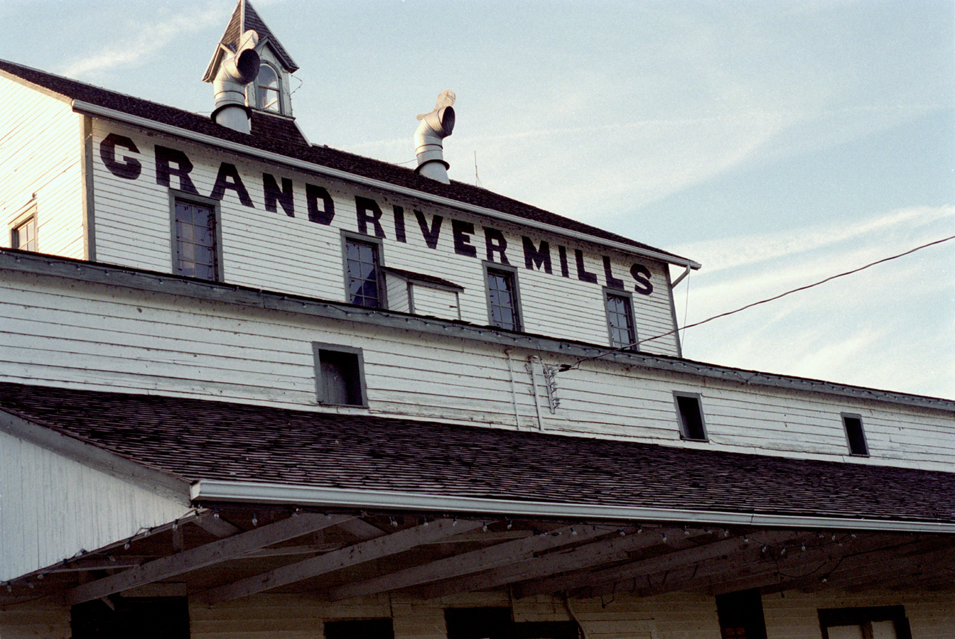 The Caledonia mill on Forfar Street West. Photo by Michael McGregor